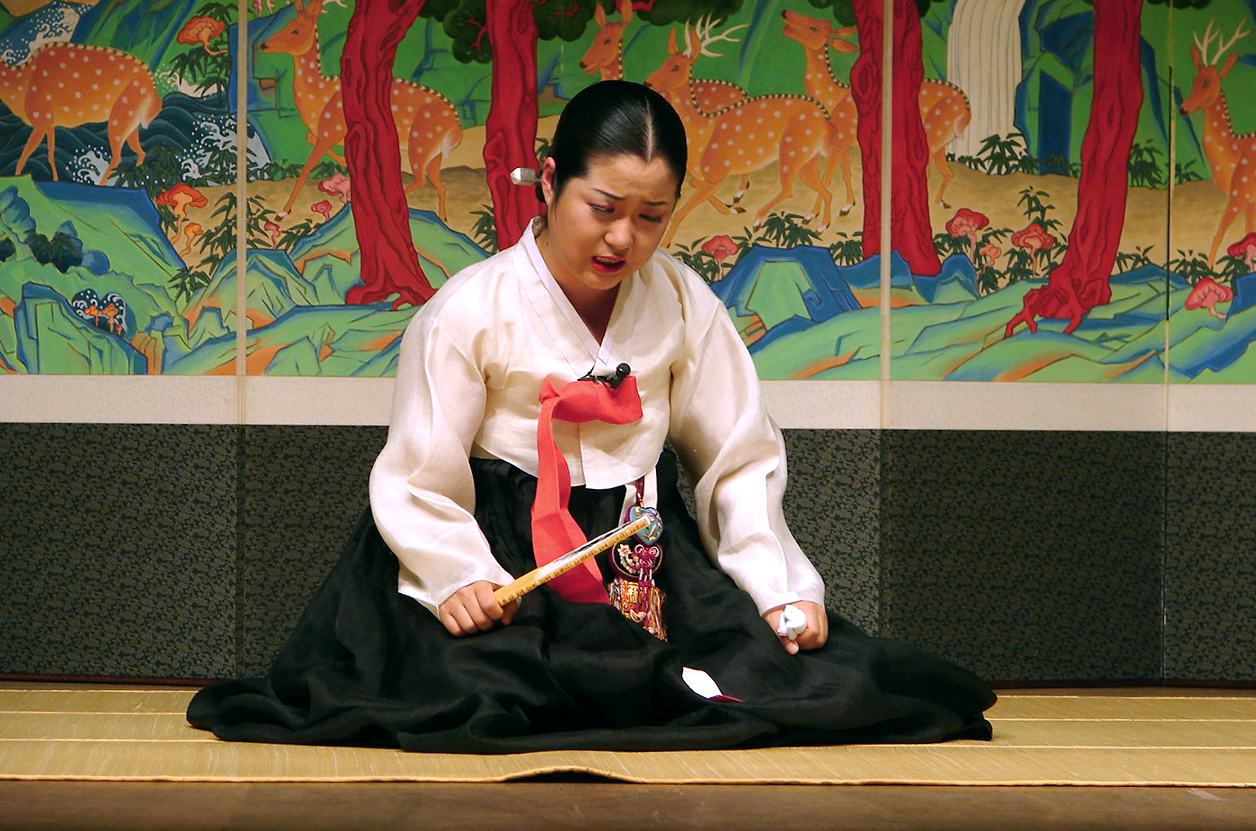 Pansori performance at the Busan Cultural Center in Busan South Korea